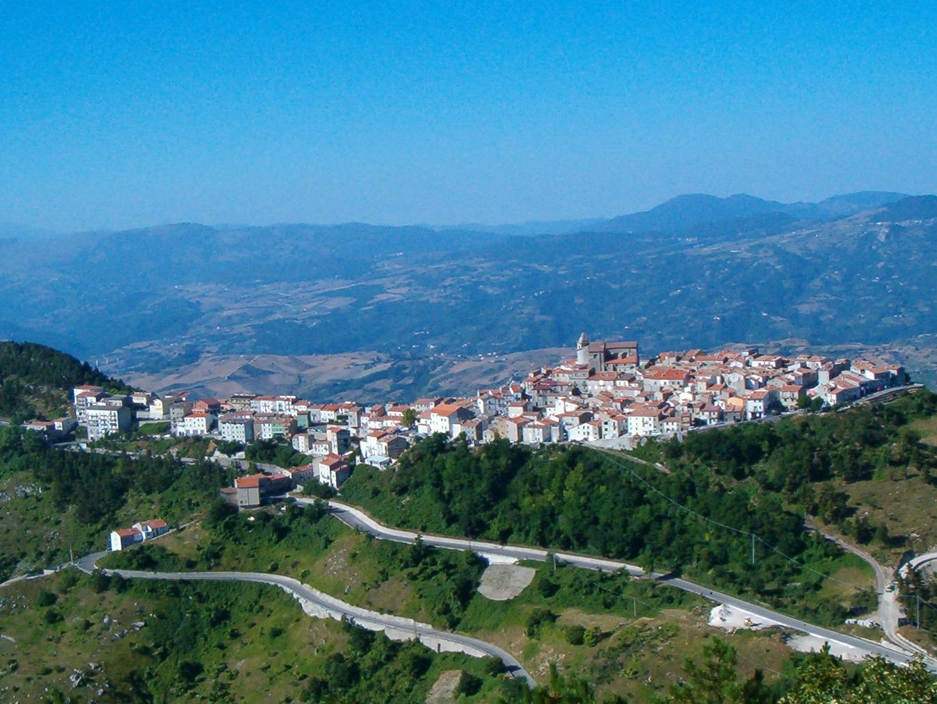 author's authorized by gianfranco barile